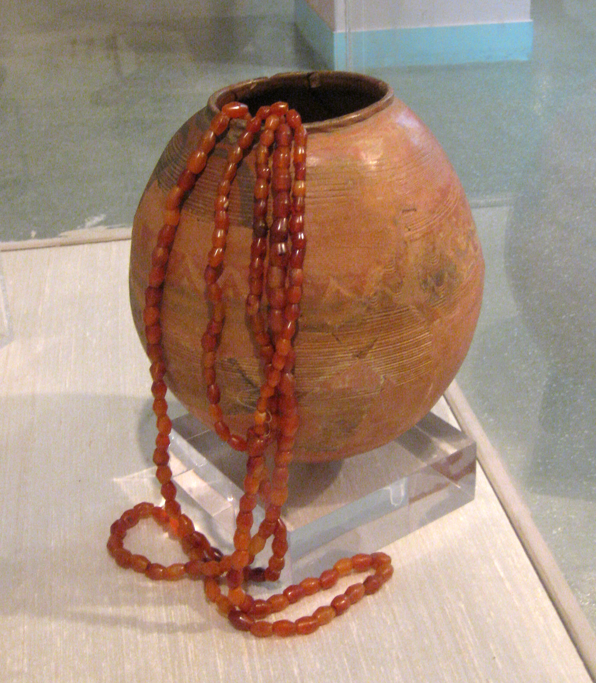 Harappan Burnished and Painted Clay Ovoid Vase with Round Carnelian Beads in National Museum, Delhi (3rd Millennium-2nd Millennium BC) Taken at Latitude/Longitude:28.611937/77.218799. 0.57 km South-East Paharganj Delhi India (Map link)